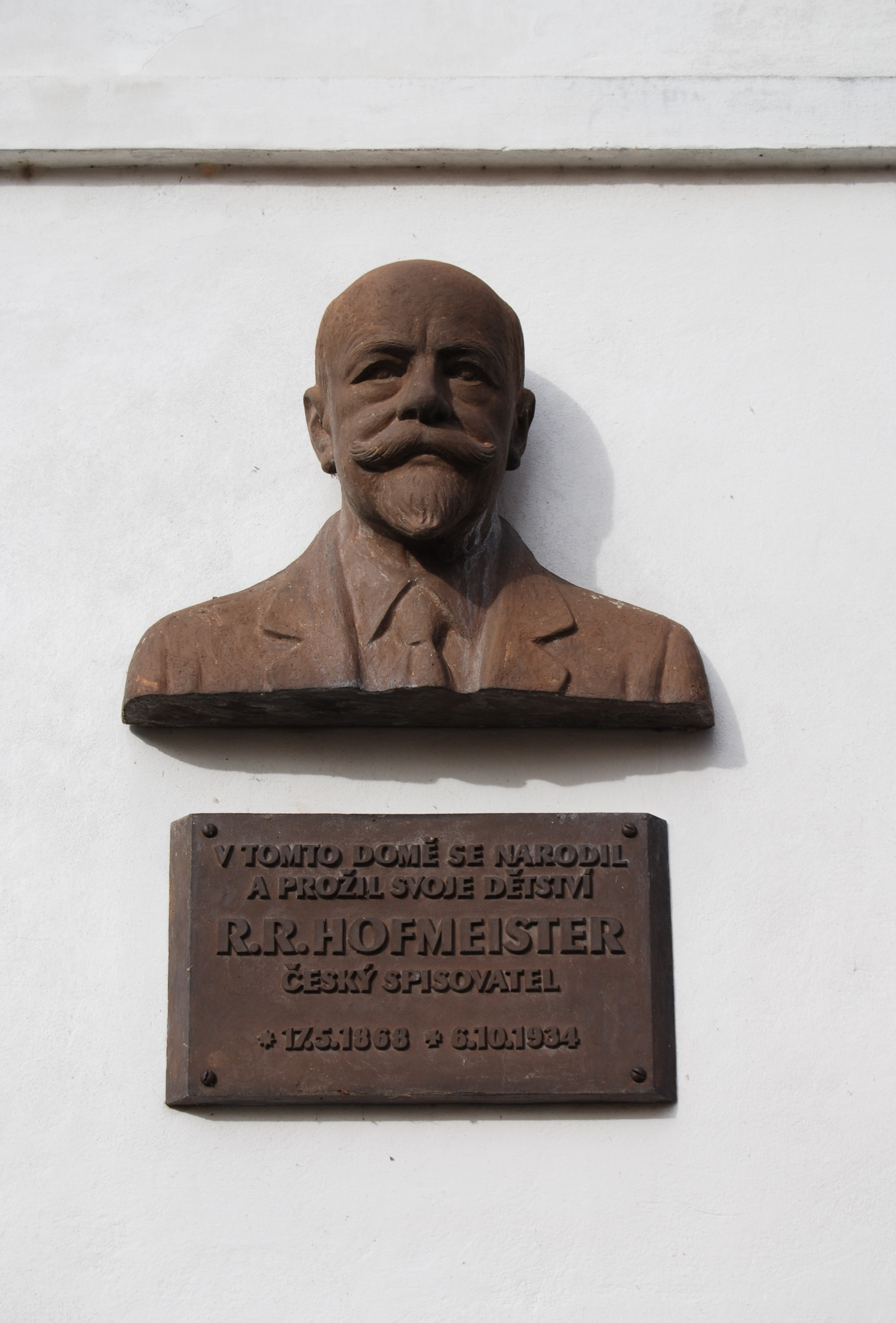 House where Rudolf Hofmeister was born in Rožmitál pod Třemšínem in Příbram District, Czech Republic.